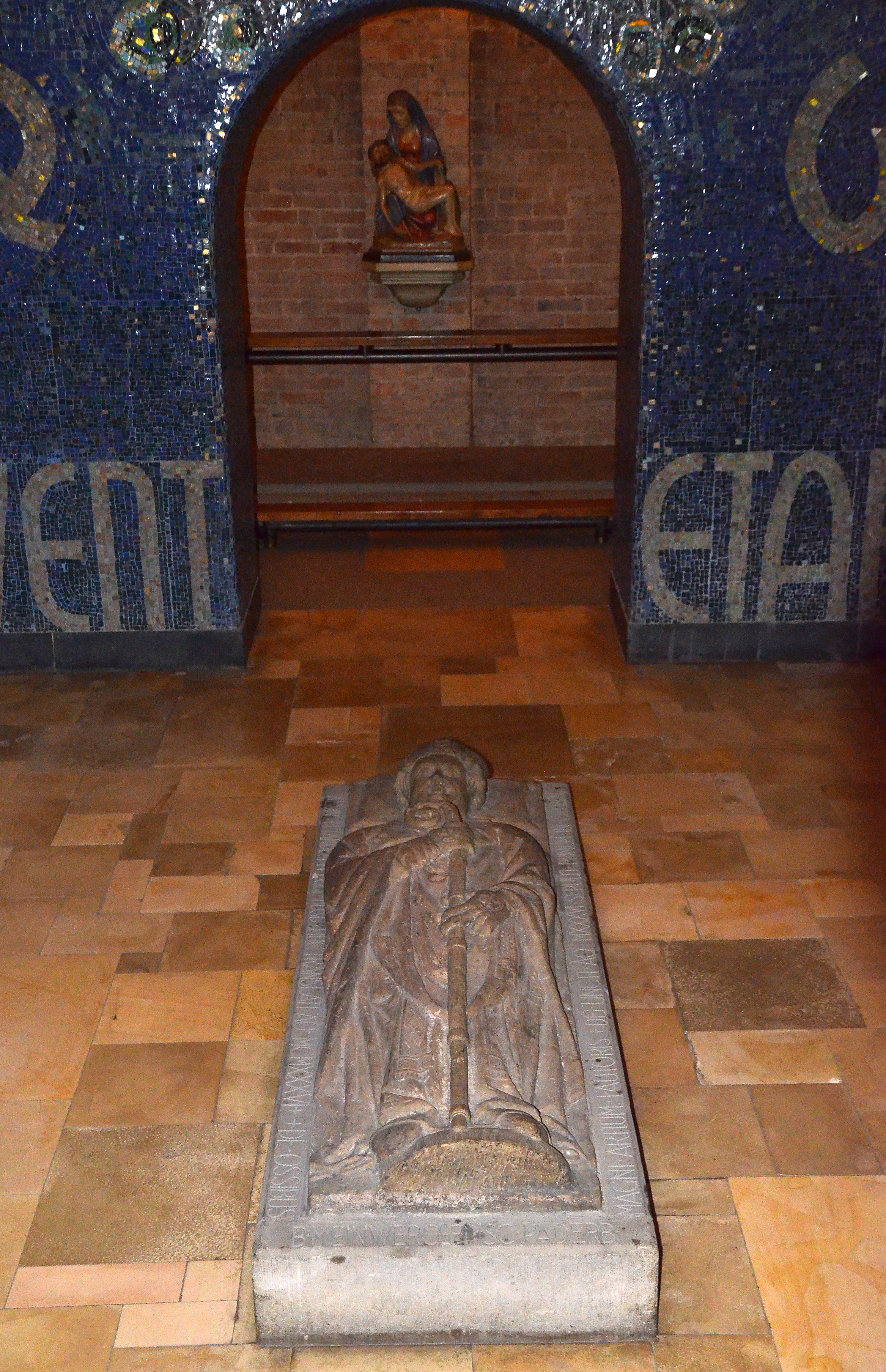 Paderborn Cathedral Paderborn, Bishop tomb, entrance hall, Tomb of Bishop Meinwerk, North Rhine Westphalia, GermanyThis is a photograph of an architectural monument., no. 3